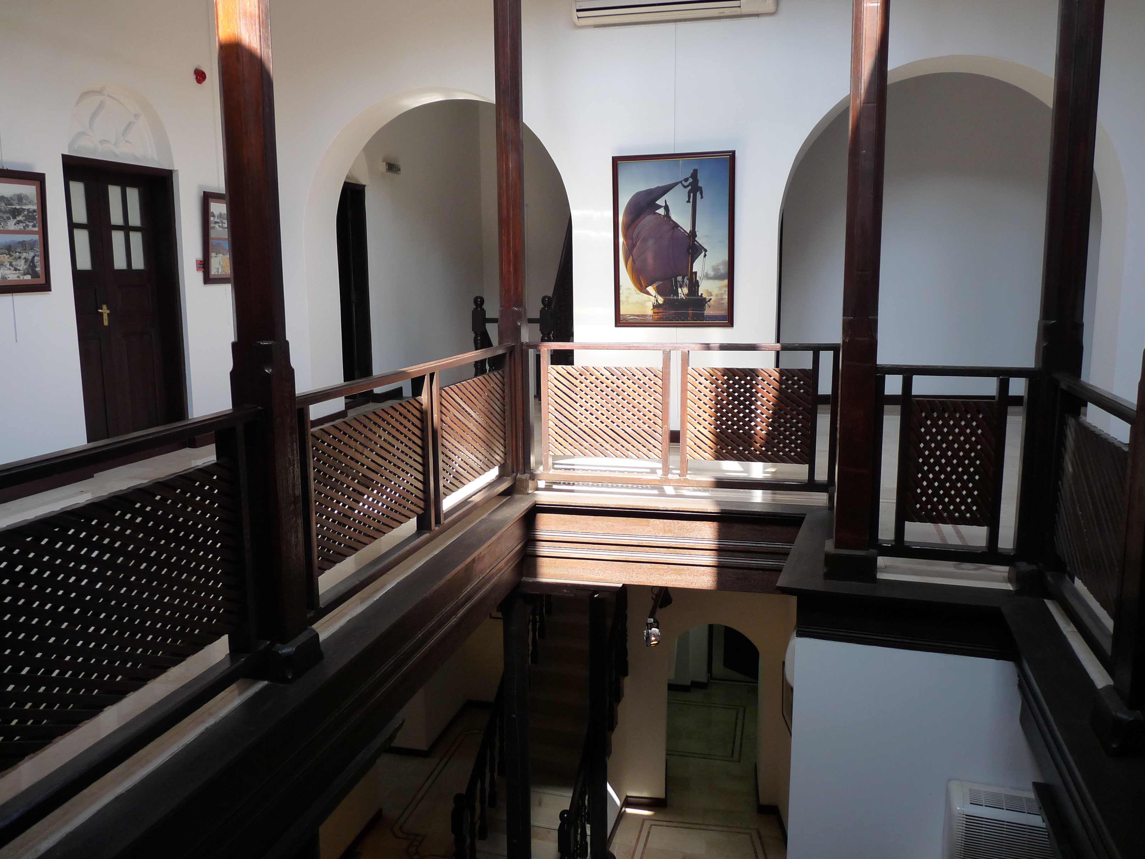 Bait Al Baranda Museum in Muscat (Oman)